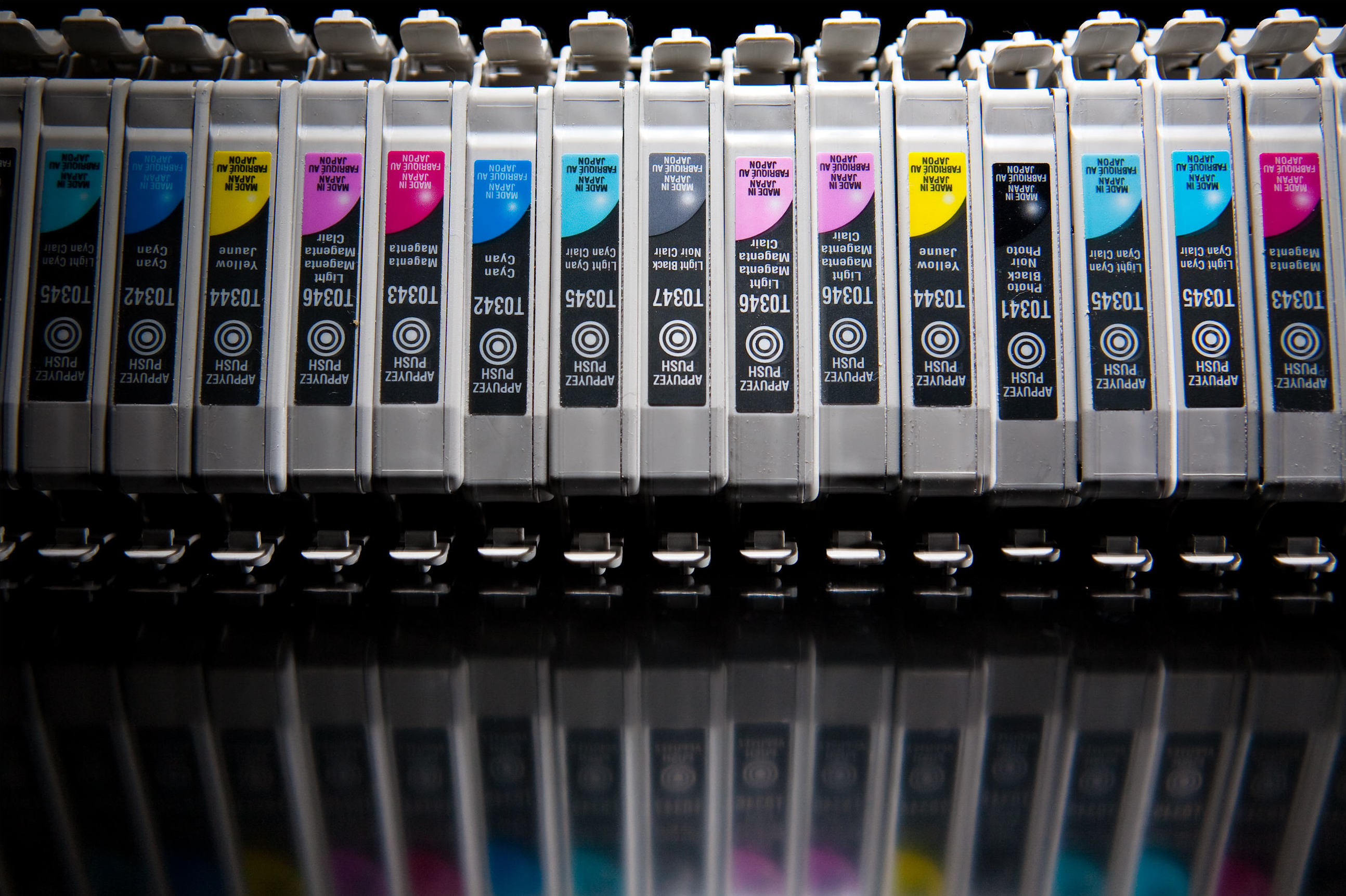 Ever since I have been making my own prints with my Epson 2200, actually and even before that with my Canon, I have always kept the spent ink cartridges for some strange reason. I would rather not get into how many empty cartridges I actually have. I think its still less than what I paid for the printer. I'm not sure which is worse, how much I have spent on ink or how much I spent on the printer.